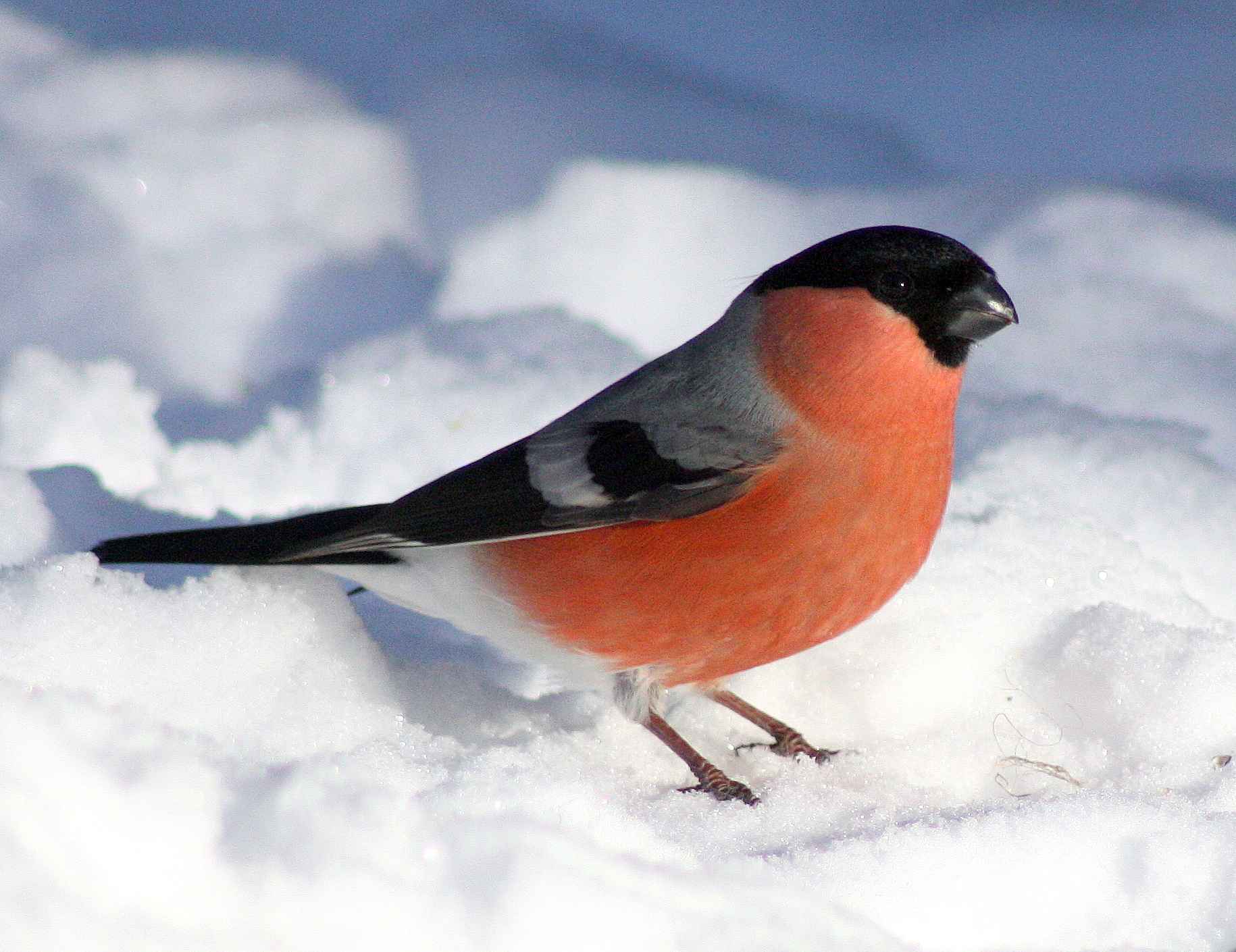 Eurasian bullfinch (Pyrrhula pyrrhula) male in Kittilä, Finland.